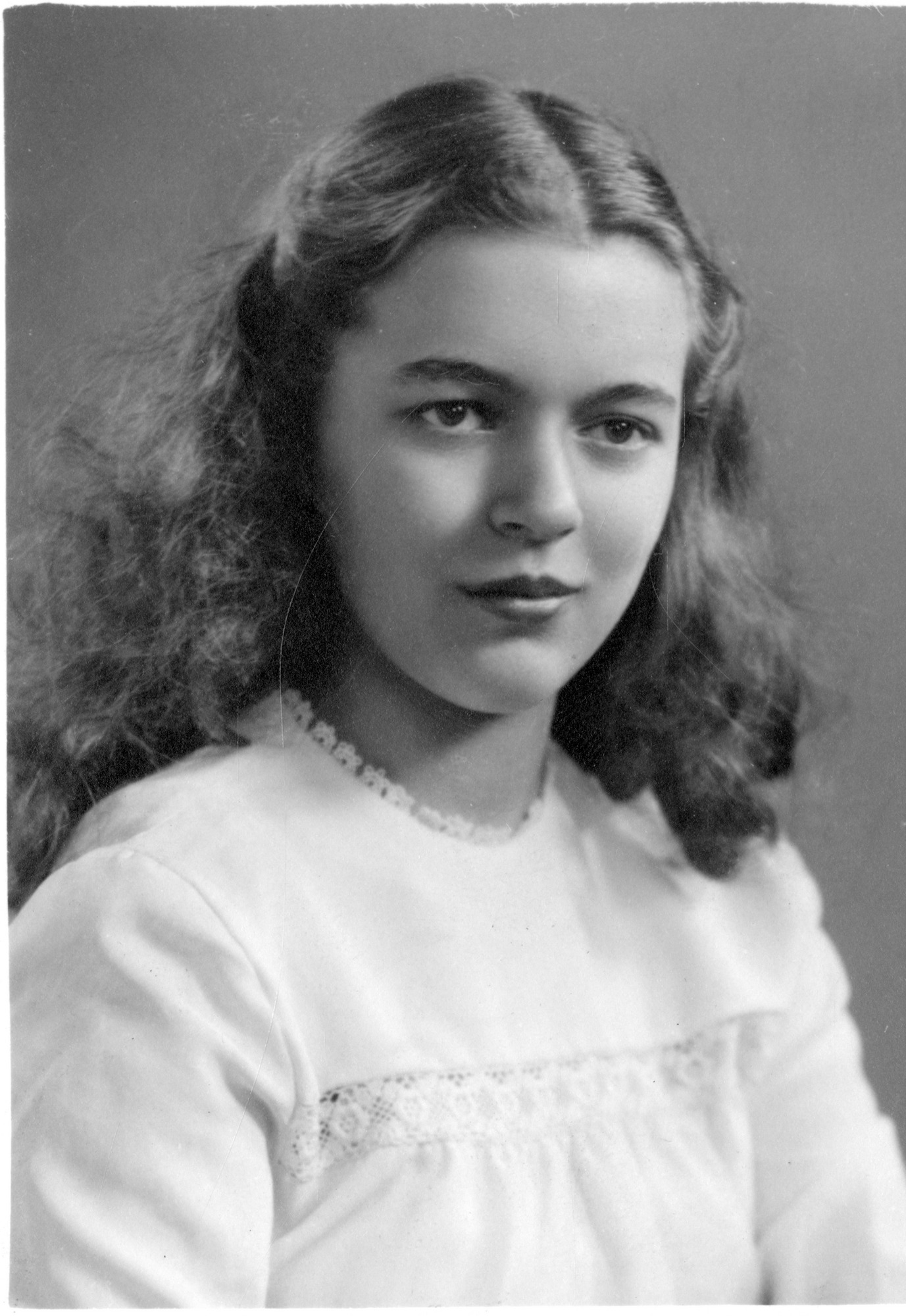 Subject: Wuellner, Flora Slosson University of Michigan University of Chicago Type: Black-and-white photographs Date: 1945 Topic: Congregationalists Local number: SIA Acc. 90-105 [SIA2009-3421] Summary: Flora May Slosson in 1945. Flora was the daughter of Preston William Slosson (1892-1984) and Lucy Denny Wright Slosson and the granddaughter of May Gorslin Preston Slosson (1858-1943) and Edwin Emery Slosson (1865-1929). She attended University of Michigan, where her father was professor of history, and began preaching when she was 17. After graduating from the University of Chicago theological seminary in 1954, she became a Congregationalist minister. She married Wilhelm Wuellner, who was an ordained but not practicing Lutheran minister ("Being Husband to a Minister is Tough Life: No Invitations to Wives' Teas," Chicago Daily Tribune, July 15, 1956). Flora May Slosson Wuellner is known as the author of many popular books on religion and spirituality Cite as: Acc. 90-105 - Science Service, Records, 1920s-1970s, Smithsonian Institution Archivess Persistent URL:Link to data base record Repository:Smithsonian Institution Archives View more collections from the Smithsonian Institution.